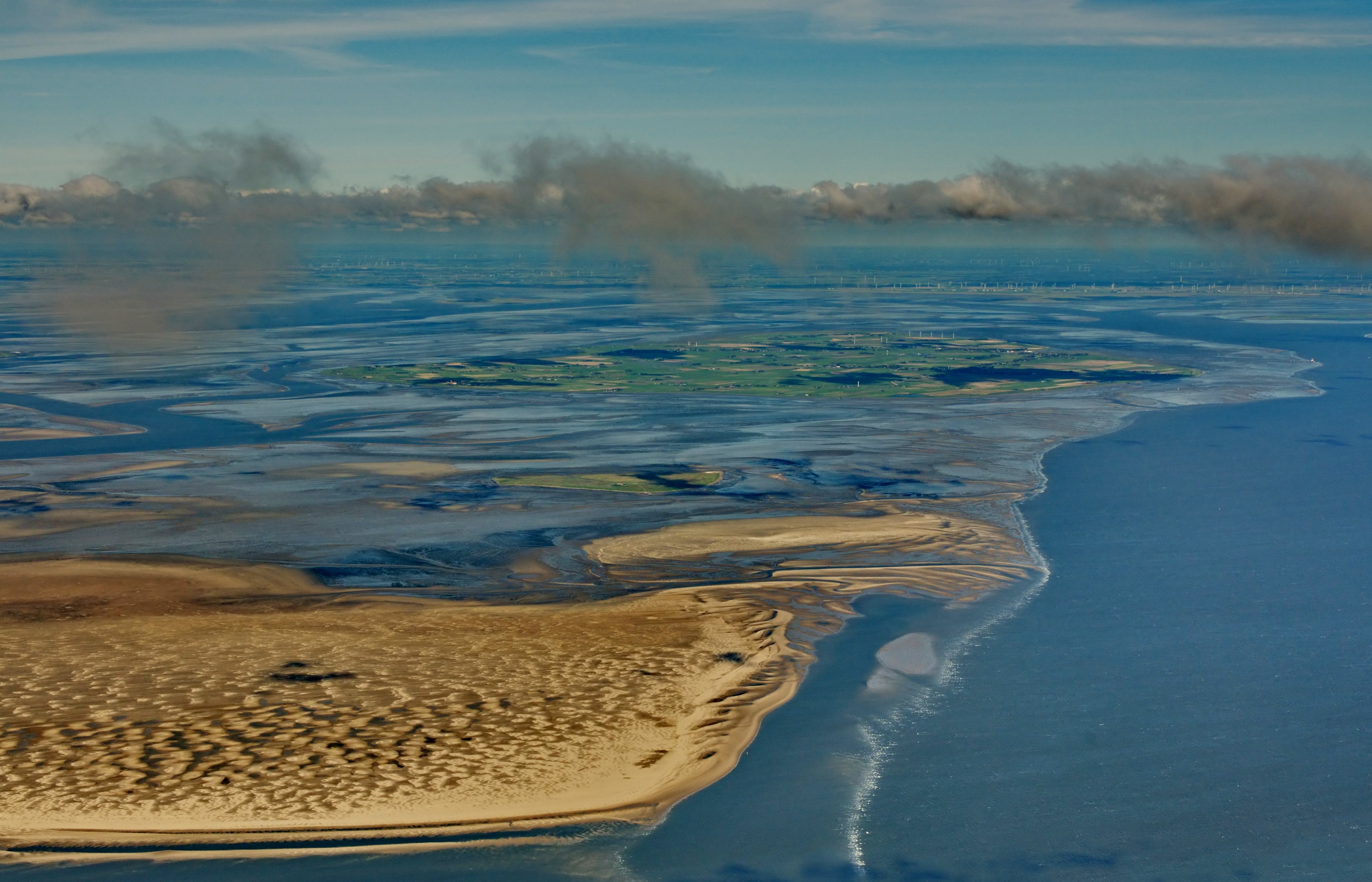 Wadden sea in Germany, Hallig Hooge and Pellworm